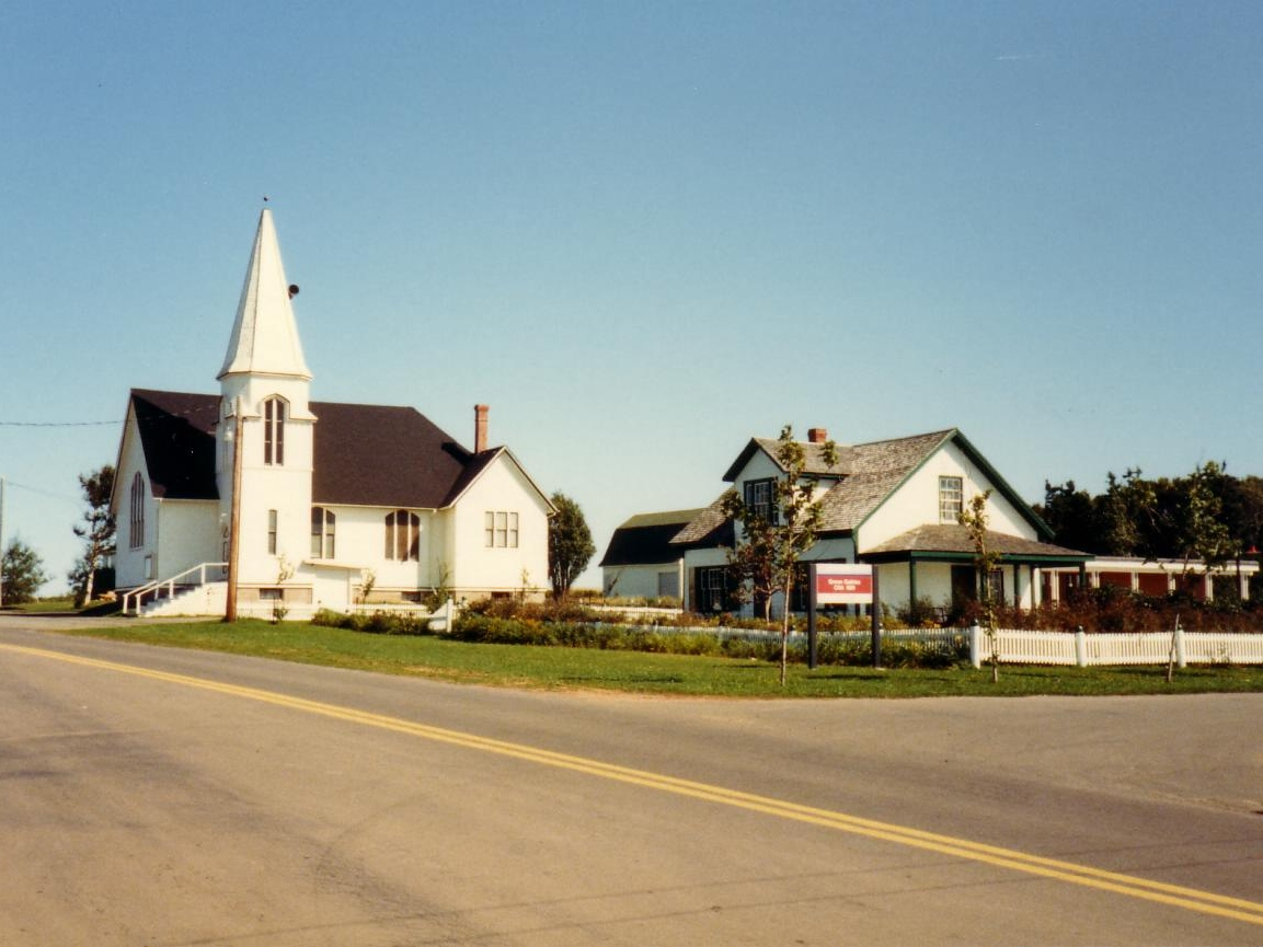 Cavendish United Church of Canada built in 1901 and originally a Presbyterian church where L.M. Montgomery worshiped in Cavendish, P.E.I.